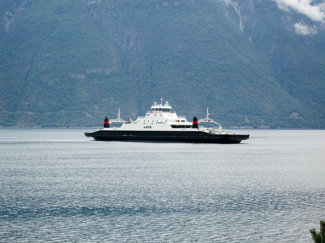 Car ferry "Lote" crossing Sognefjorden